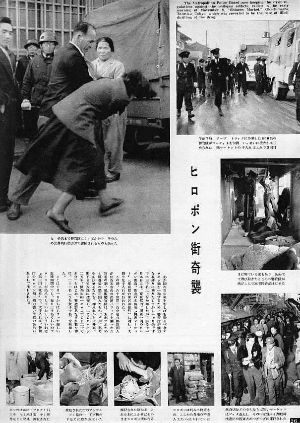 Mainichi Graphic clipping (24 November 1954 issue)